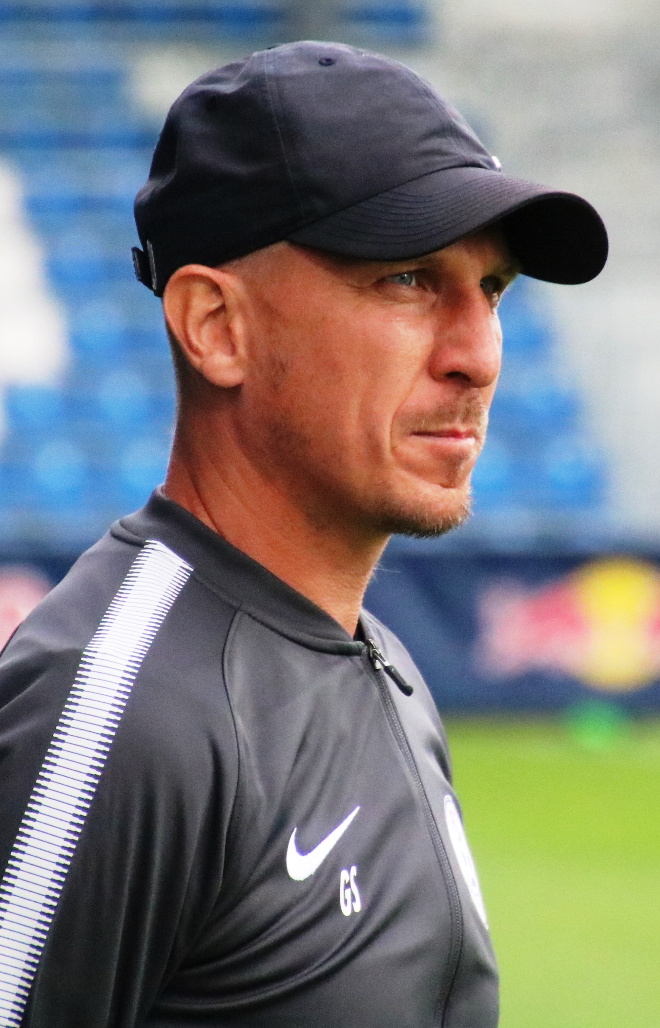 League match Austria 2nd league